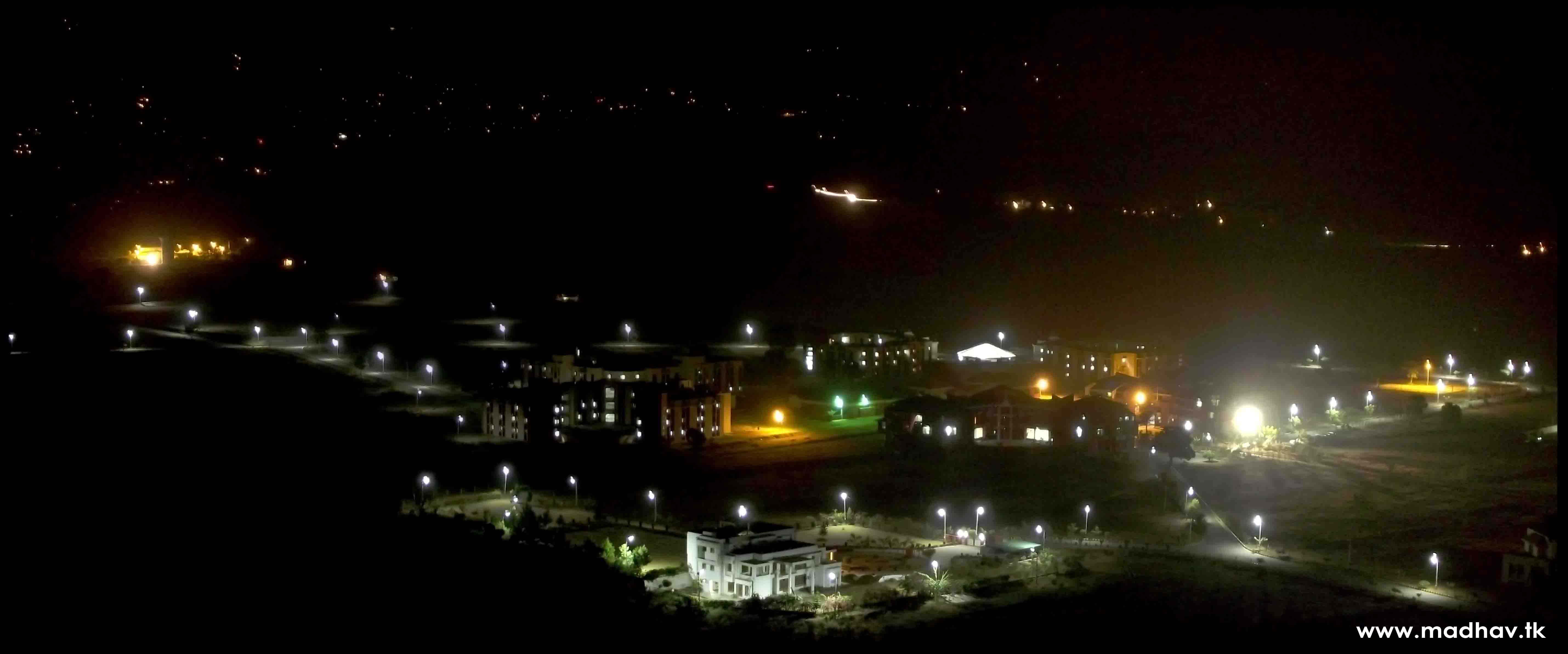 Smvdu from western plateau.